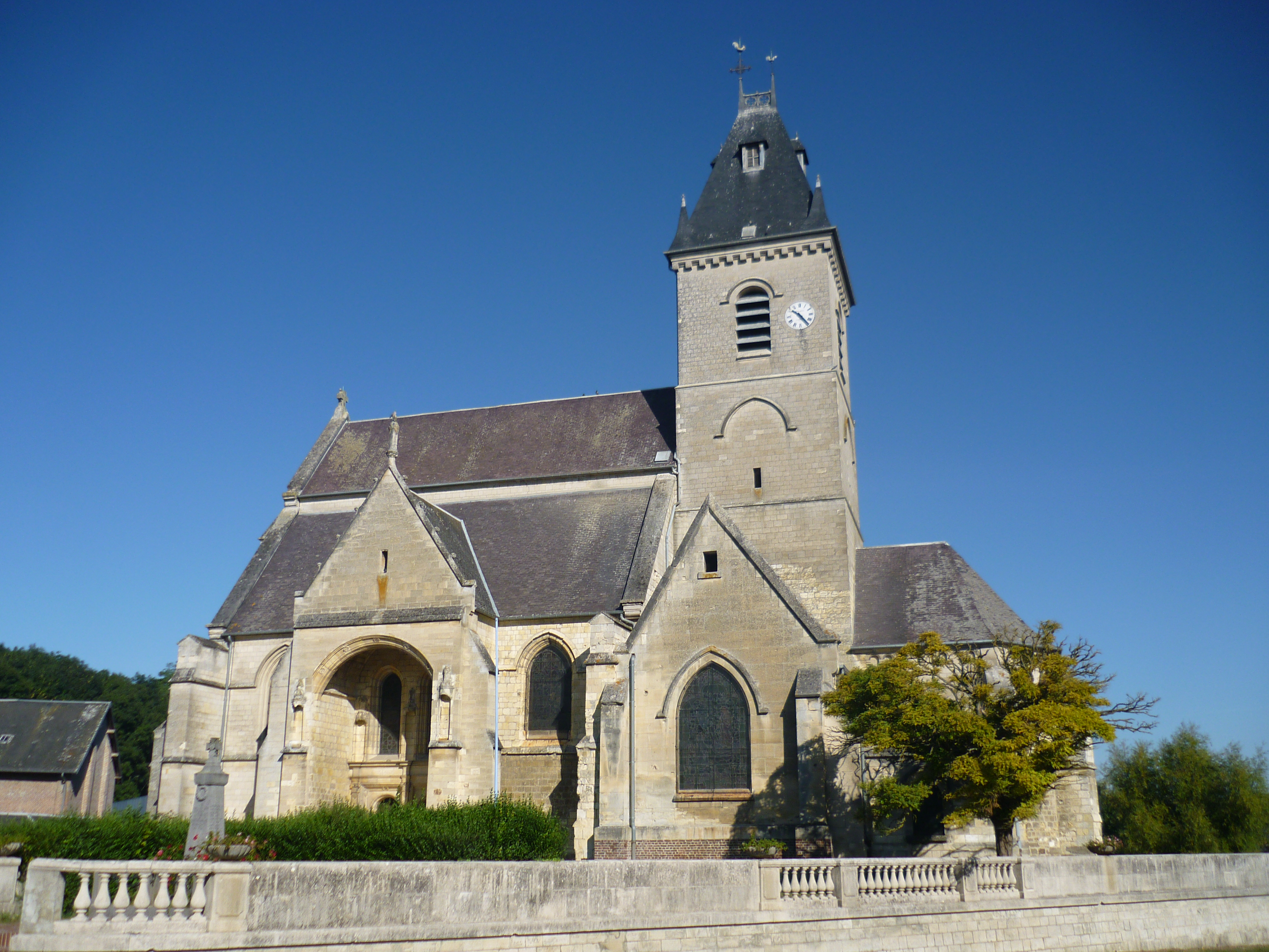 13th century choir. Outstanding Renaissance porch. Beautiful stained-glass windows. .